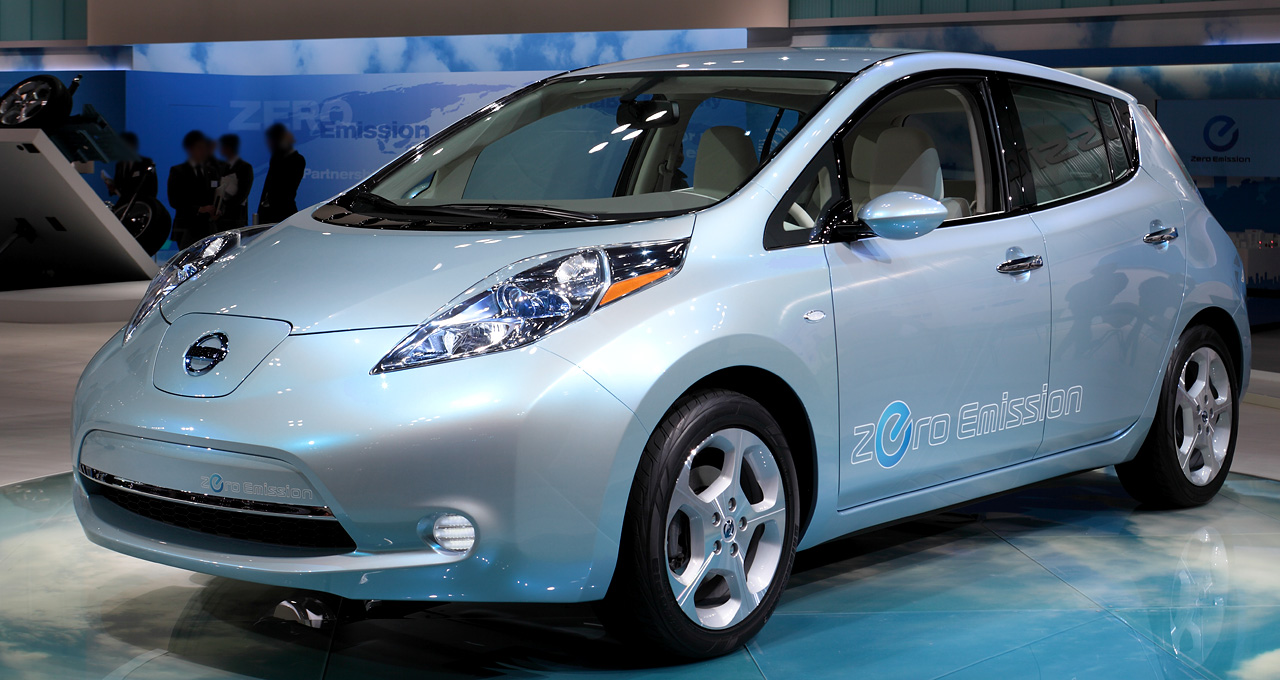 Nissan Leaf at the 2009 Tokyo Motor Show (LHD).